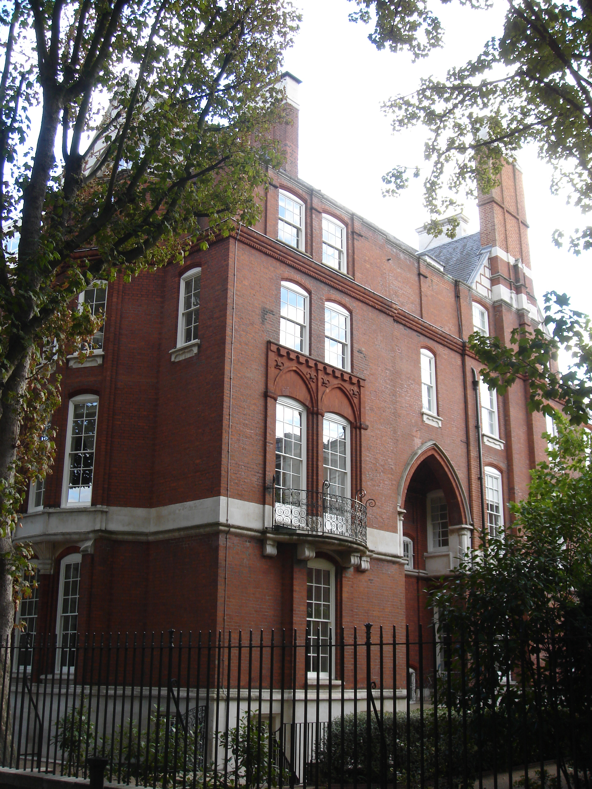 1 Palace Green